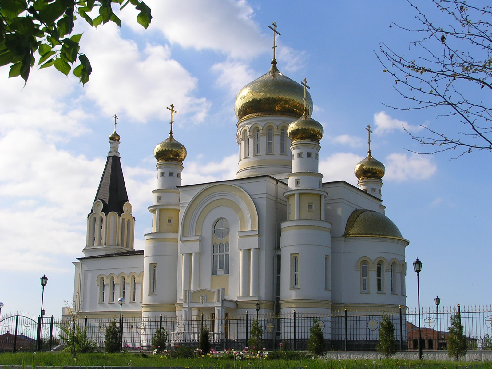 New Church in Vladikavkaz Object: Vladikavkaz, Russia Description: New Church in Vladikavkaz Author: Вся Осетия (Vsia Osetia) Created: 2006 Source: Вся Осетия (Vsia Osetia)